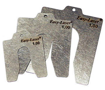 Pre-cut metal shims of different sizes, all with a thickness of 1.00 millimeters